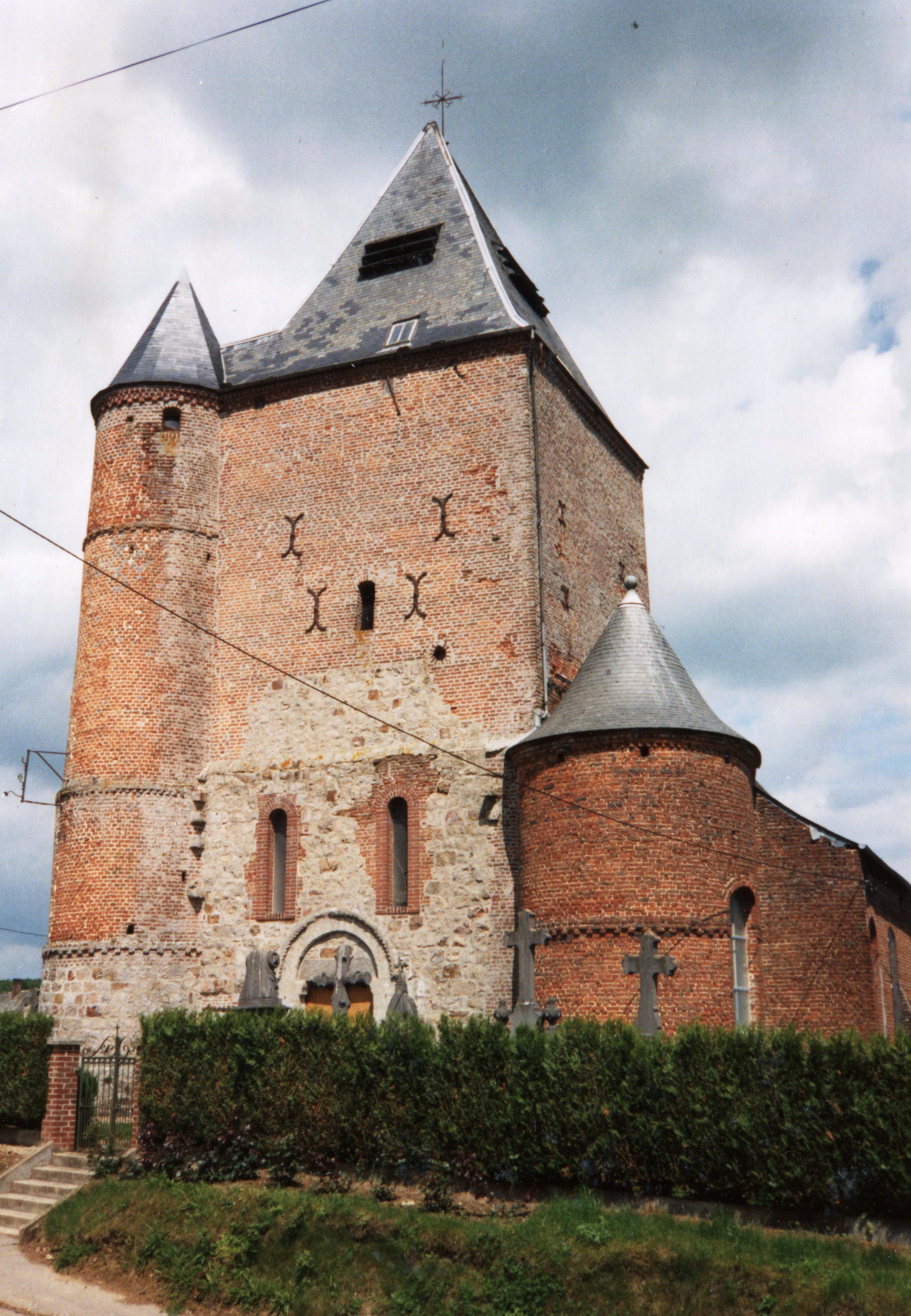 Église Sainte-Benoîte de Lerzy en 1991